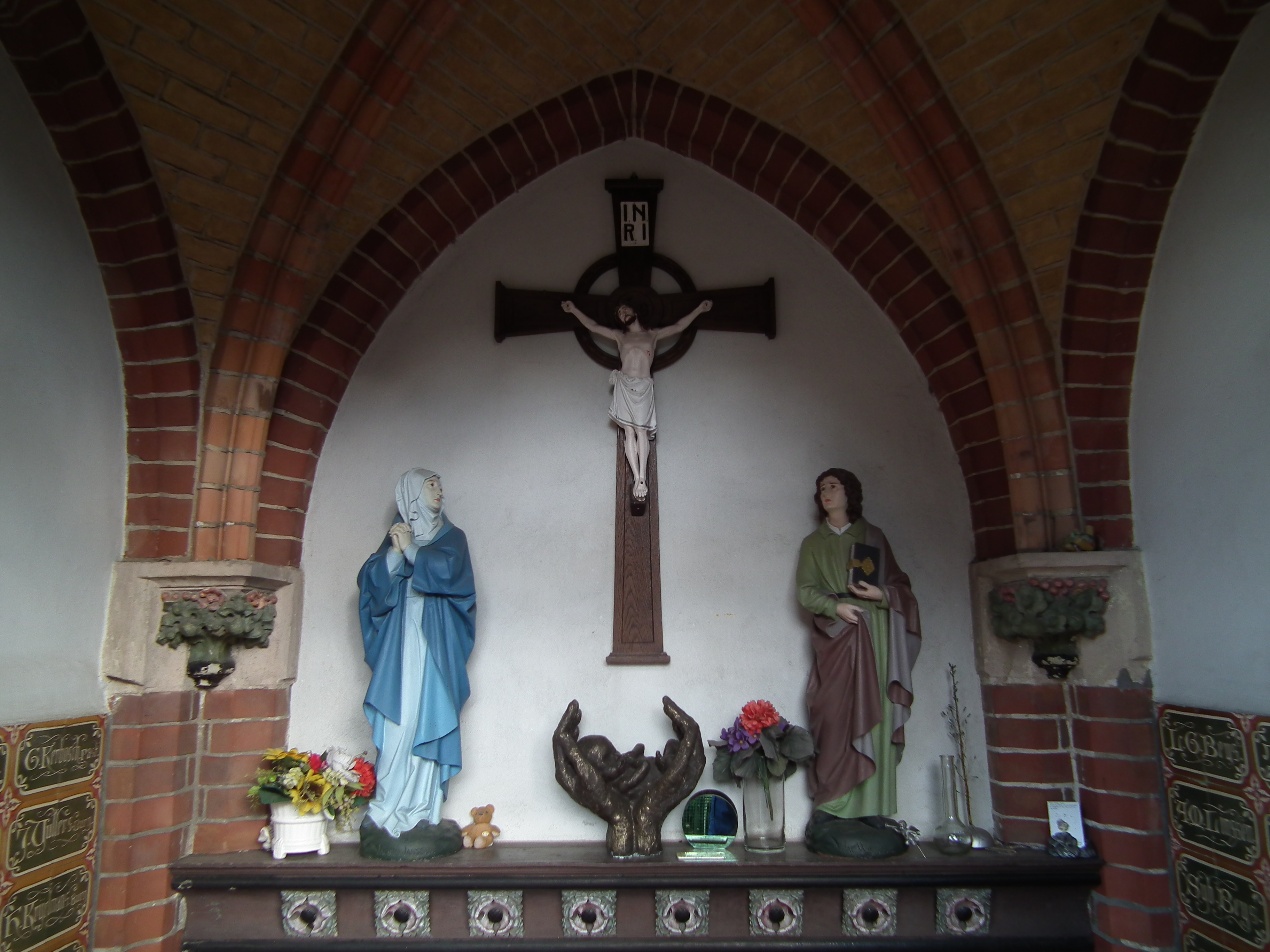 Interior of the chapel on the cemetary of the St. Lambertuschurch in Nederweert.